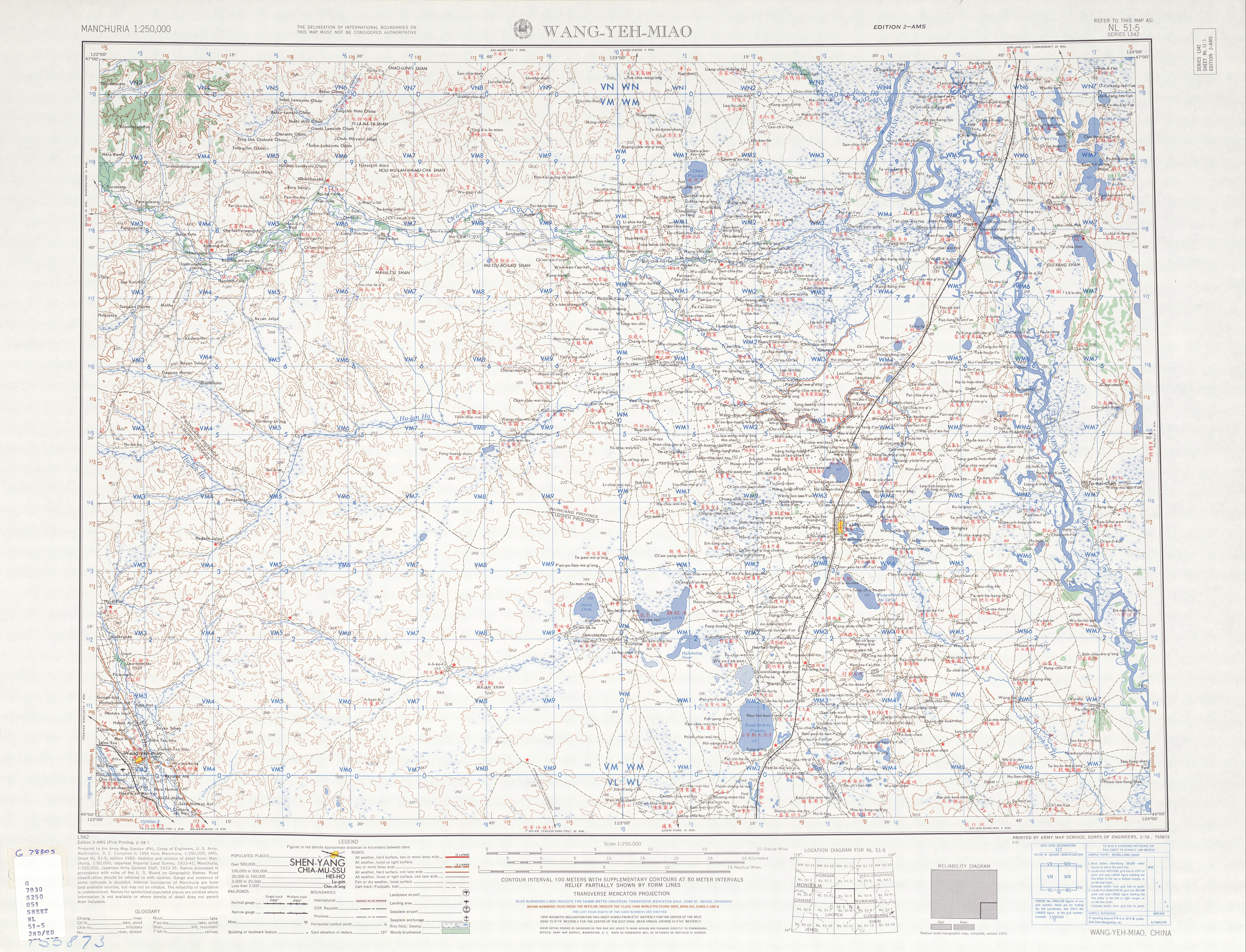 Manchuria AMS Topographic Maps